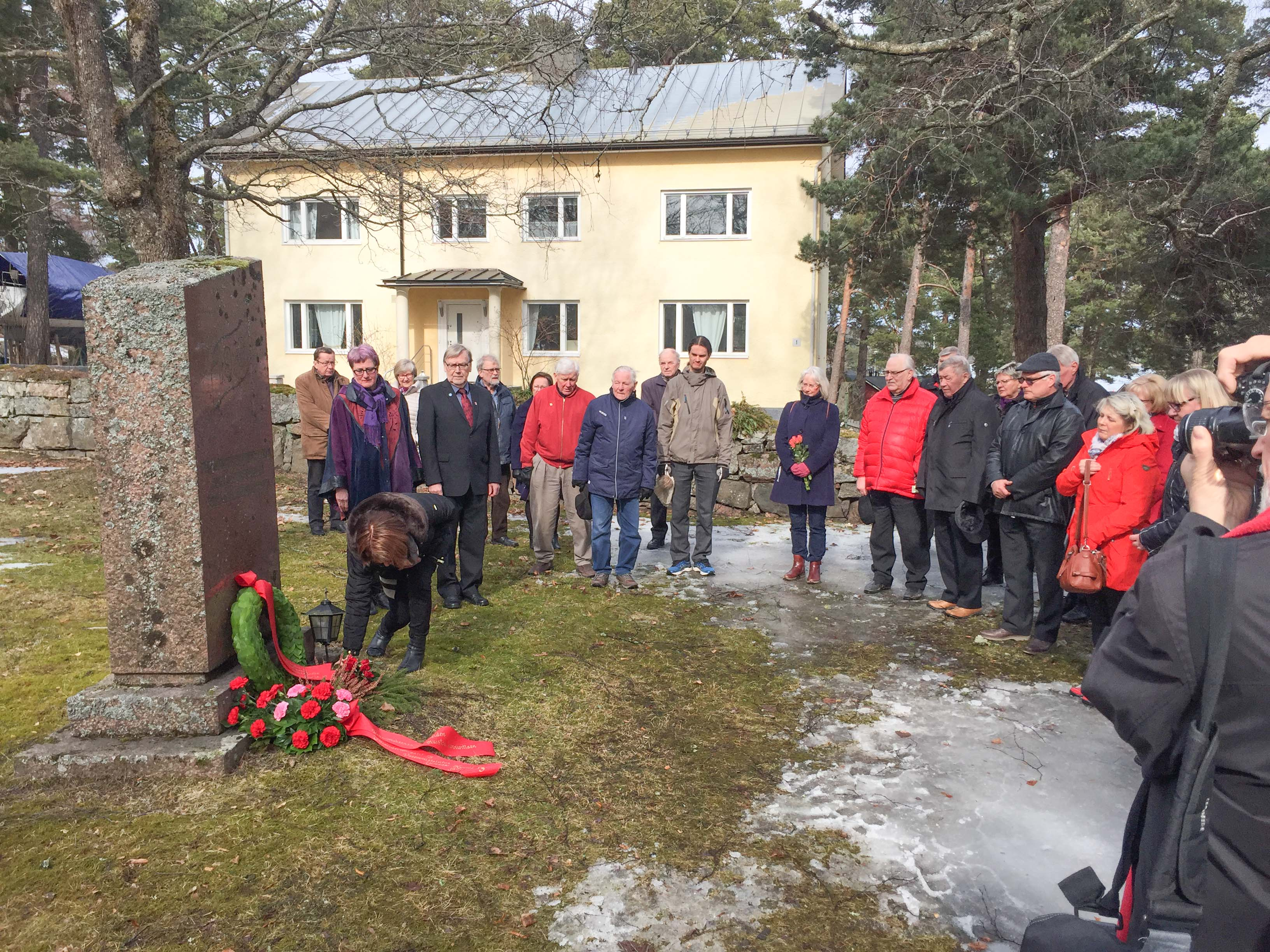 Commemorating reds in Nagu 1918, 100 year anniversart